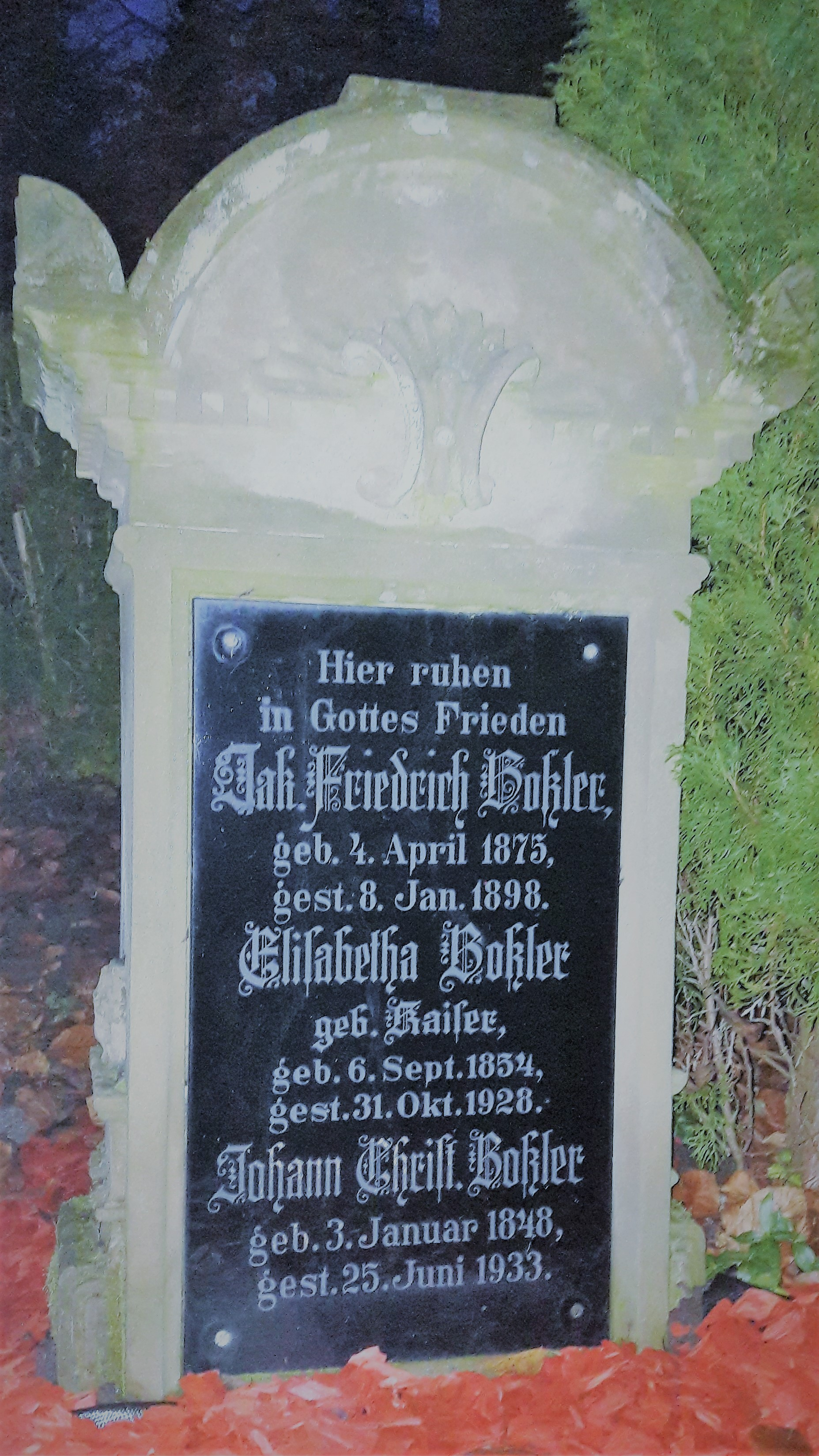 Boßler (Unternehmerfamilie)